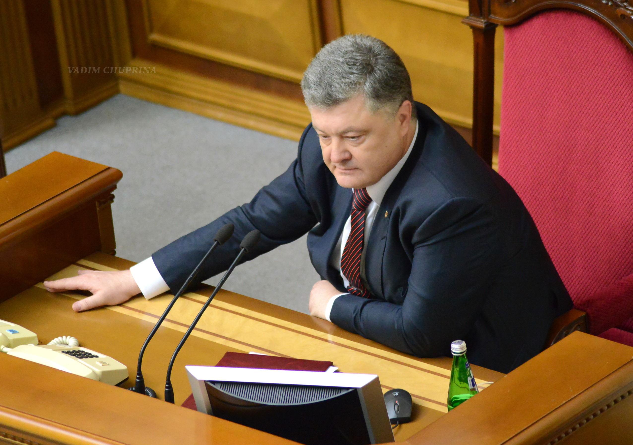 Ukrainian politicians VADIM CHUPRINA